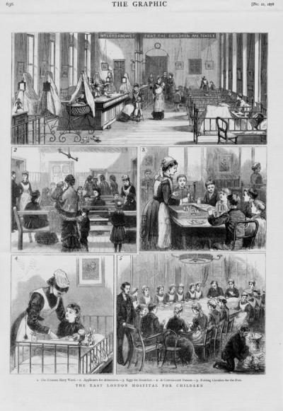 Sarah Maud Heckford and husband ran the East London Hospital for Children. Here is a graphic that Charles Dickens wrote about under the title of a "Little Star in the East" - These include: 'The Princess Mary Ward'; 'Applicants for admission'; 'Eggs for breakfast'; 'A convalescent patient'; and 'Folding circulars for the post'.